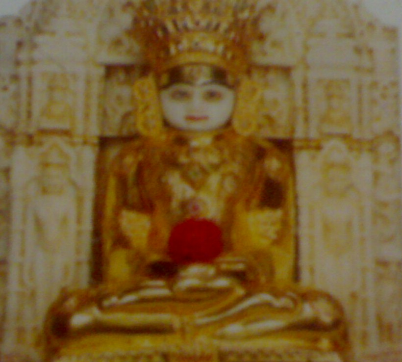 my collection